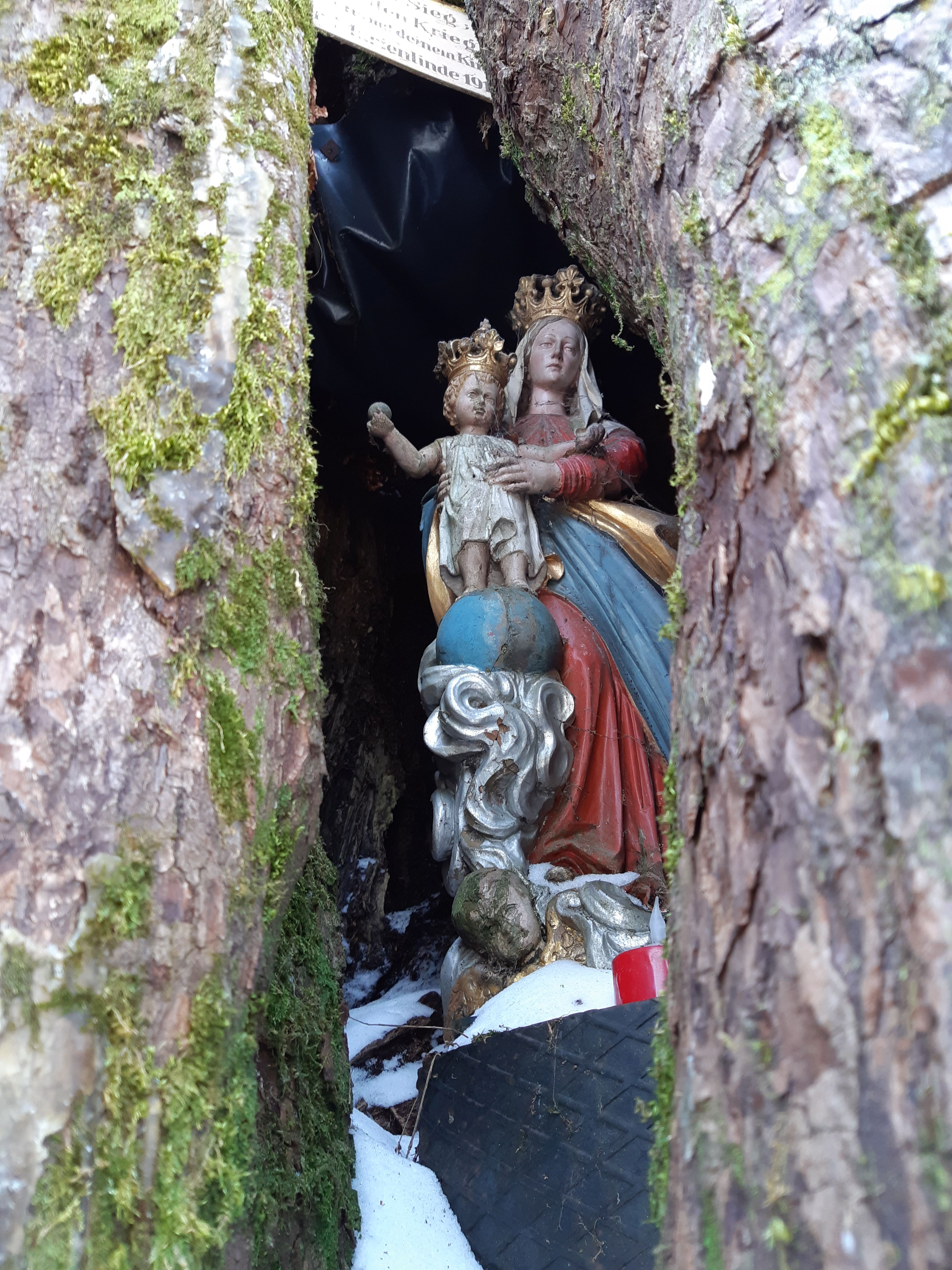 The Holy Mary-Tilia (German: Marien-Linde) in Sulzberg (Vorarlberg, Austria) in February 2020.